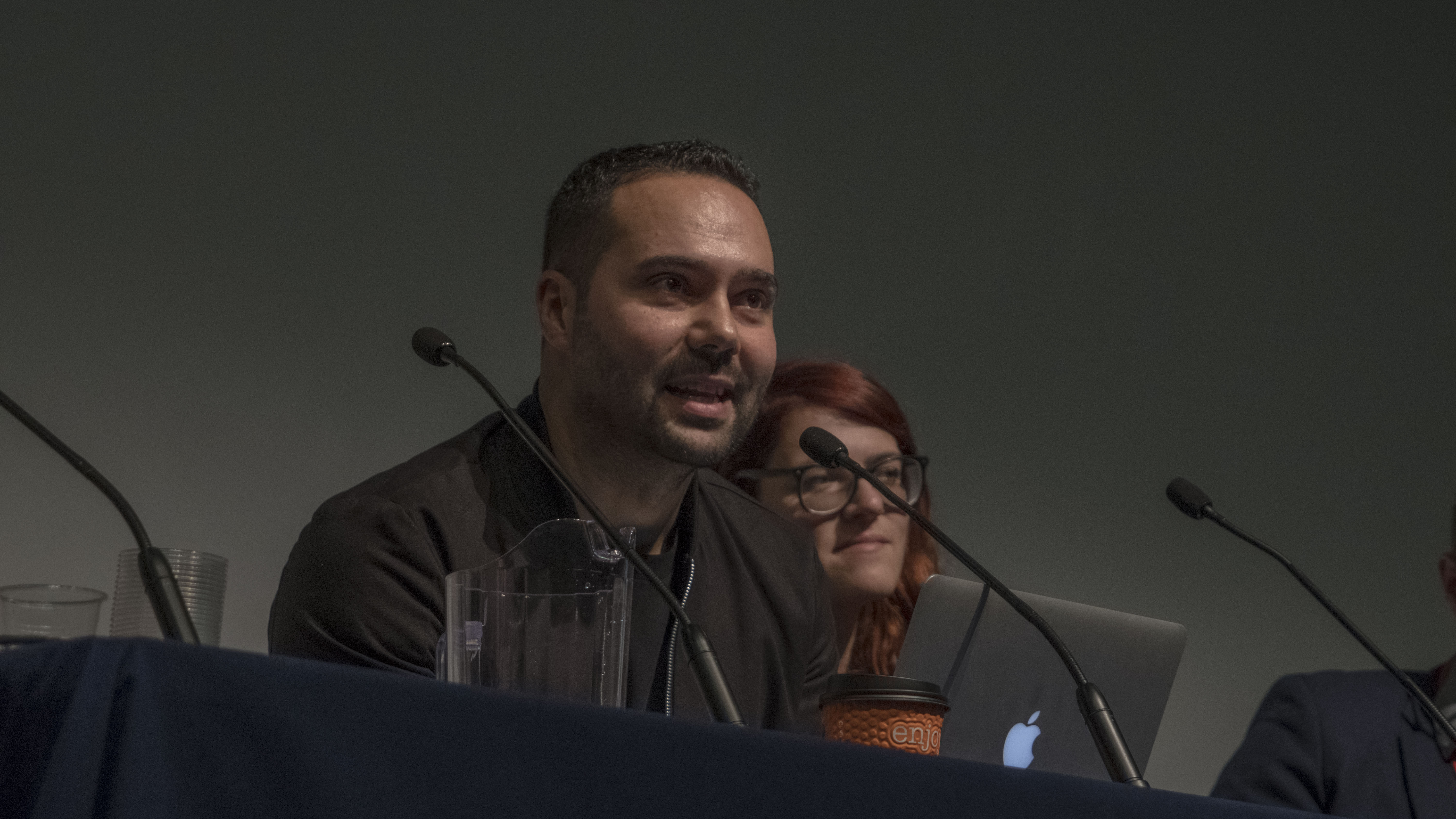 Aaron Bastani, The World Transformed